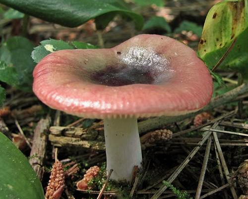 Russula fragilis Fr. Location: Oneida Co., New York, USA For more information about this, see the observation page at Mushroom Observer.